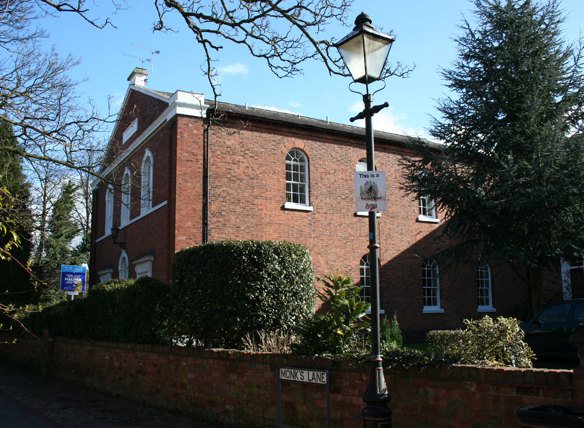 Former Congregational Chapel, Monks Lane, Nantwich, Cheshire, seen from the northwest